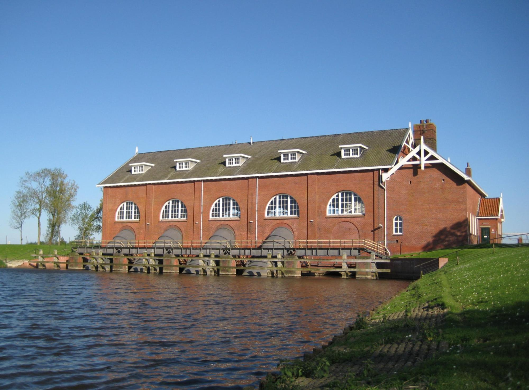 Pumping Station "De Waterwolf", Electra, in the Dutch province of Groningen